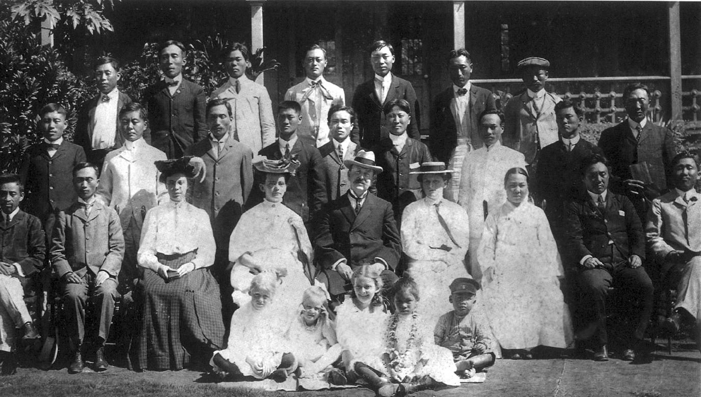 Honolulu Methodist Church's Korean congregation, 1906. By row from front: Chan Ho Min (2nd from left), George H. Jones (centre) Dora Kim (3rd from right) Soon Hyun (2nd from left), Ye Jai Kim (3rd from left), Chi Pom Hong (4th from left) Hong Kyun Shim (3rd from right), Sun Il Yee (1st on right)